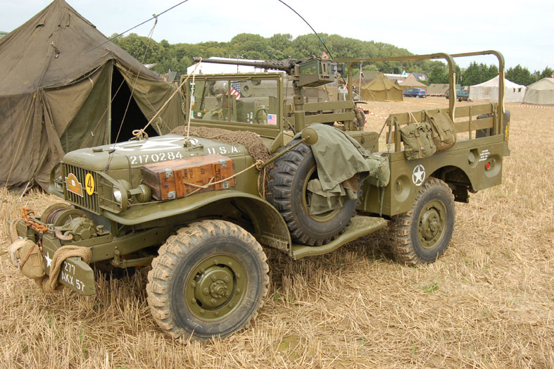 Dodge_wc52